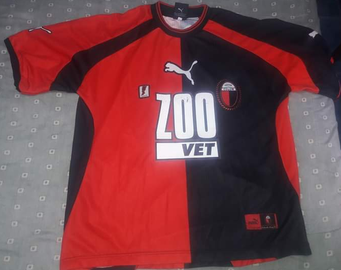 T-shirt holder of Colón 2001